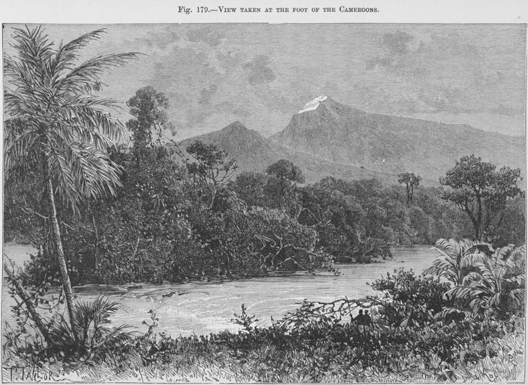 View taken at the foot of the Cameroons. From The earth and its inhabitants, Africa (published 1890-1893 [v.1, 1892] ).